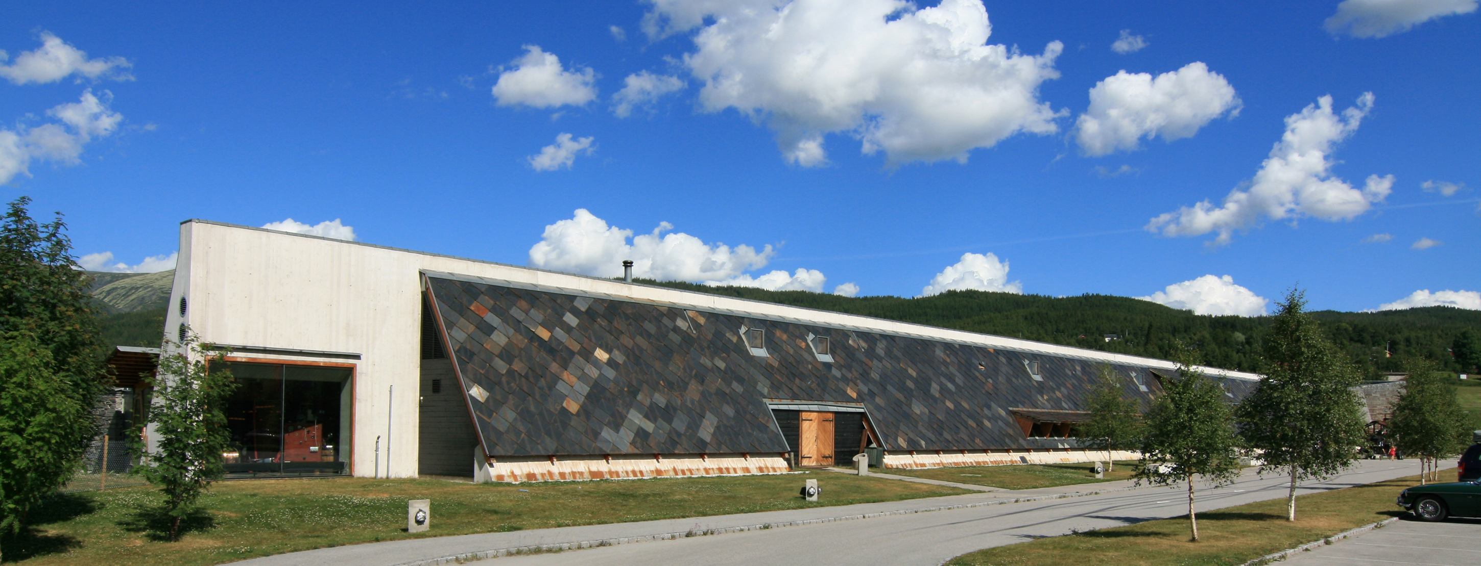 Aukrustsenteret, Alvdal, Norway. Architect: Sverre Fehn.